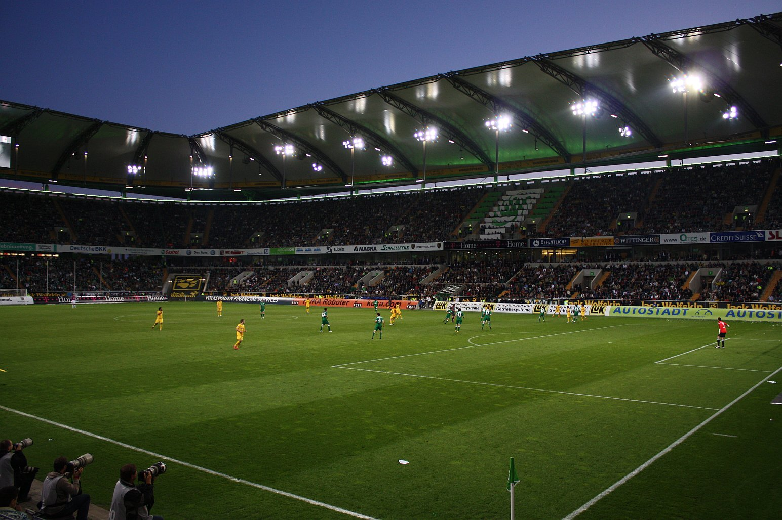 Borussia Dortmund against Wolfsburg in May 2009.